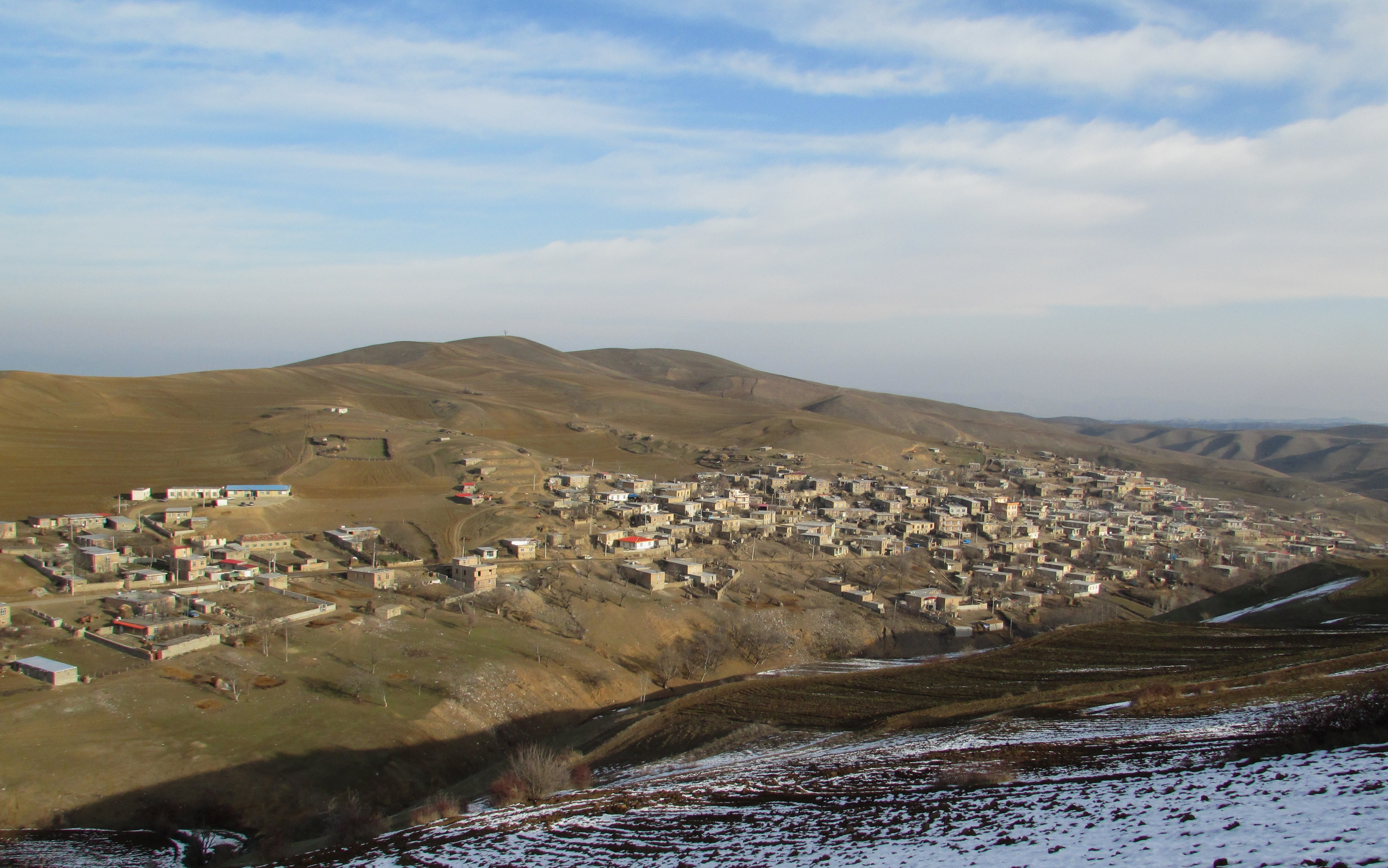 This photo of Oti Kandi was taken by Ravanbakhsh Leysi.